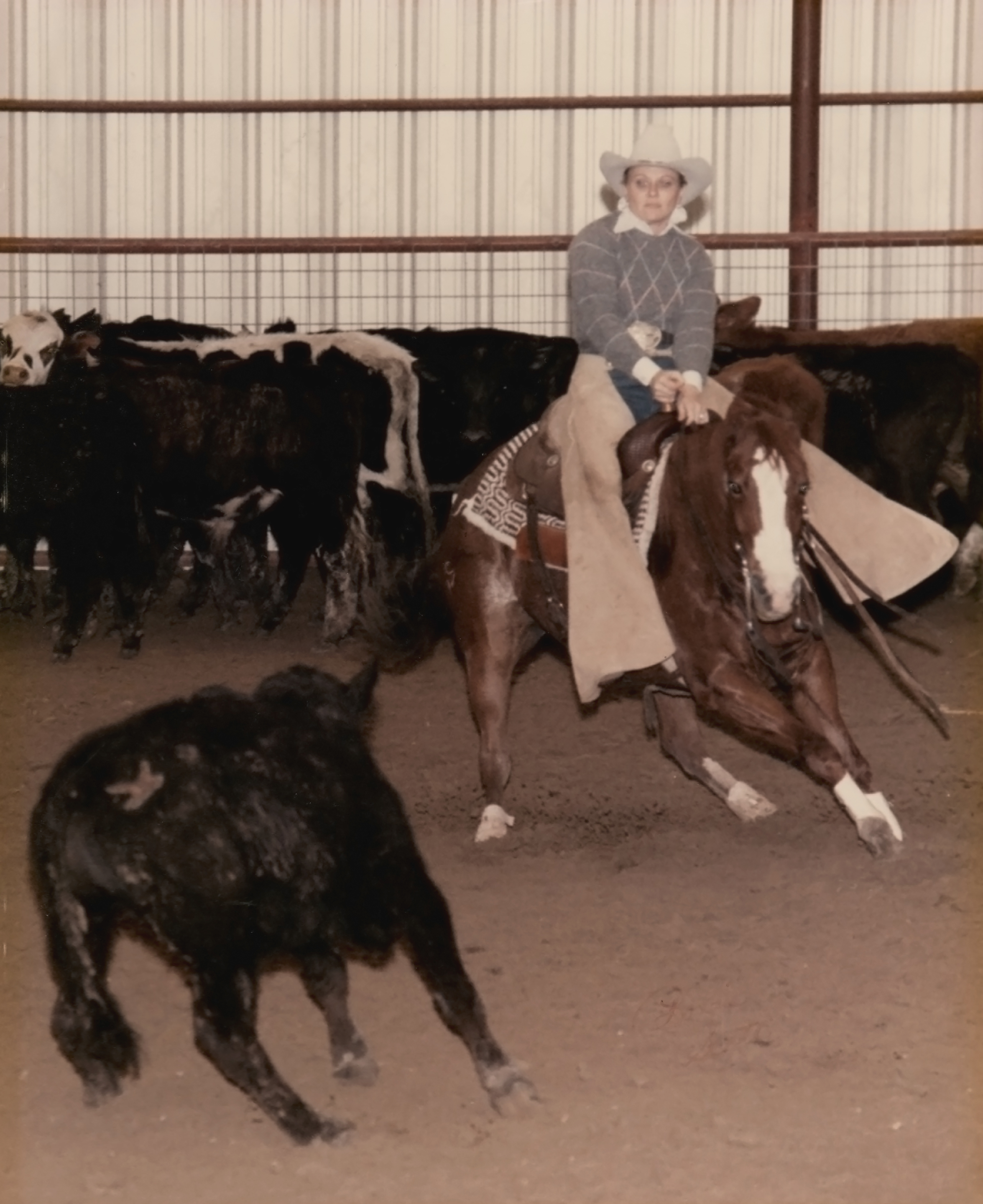 Rocinante Quixote cutting cattle